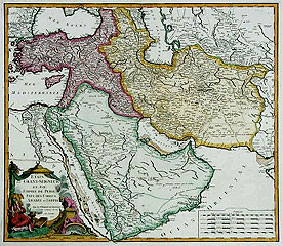 A 1753 map by Robert De Vaugondy titled ESTATS DU GRAND-SEIGNEUR EN ASIE where the color yellow marks the Greater Persian territores.